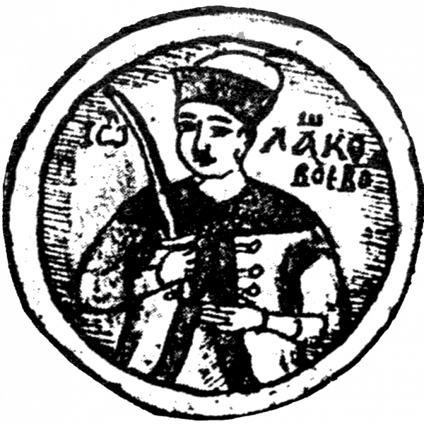 Latcu of Moldavia (1368-1375)